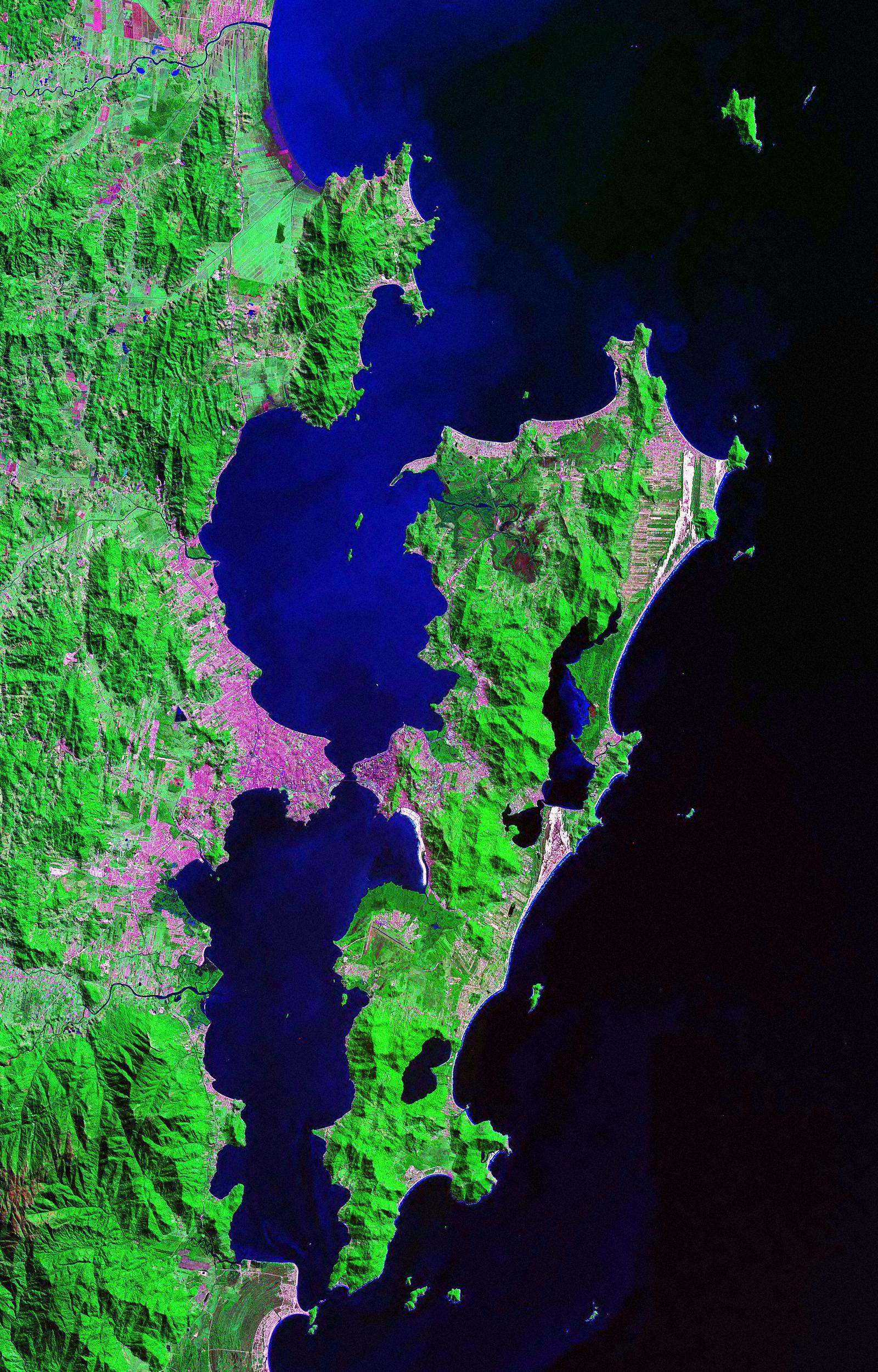 Landsat satellite photo (circa 2000) of Santa Catarina Island.